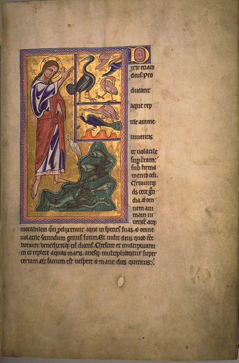 Folio 2 recto from the Aberdeen Bestiary.